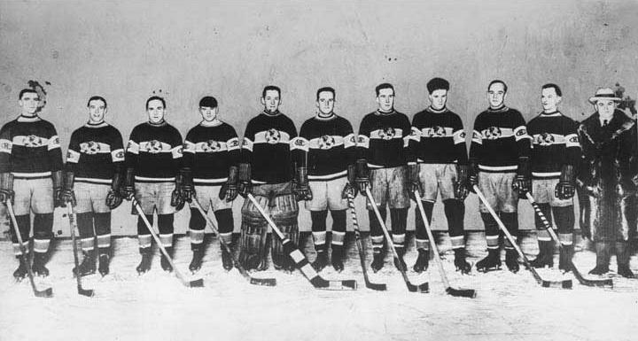 Photo of Montreal Canadiens after winning the Stanley Cup in 1924 Stanley Cup Finals. It was the second time the Canadiens won the Cup.